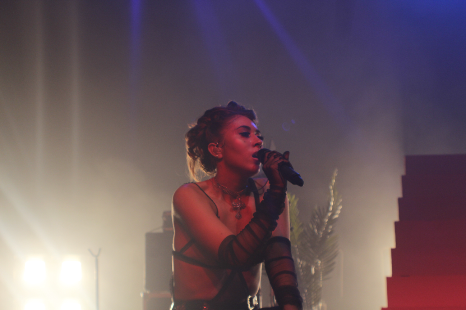 Photo of Kali Uchis performing live; taken in 2017.